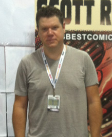 Scott Reed at New York Comic-Con, Manhattan 2012